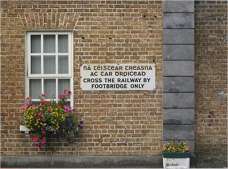 Original photograph taken by me at Athenry station